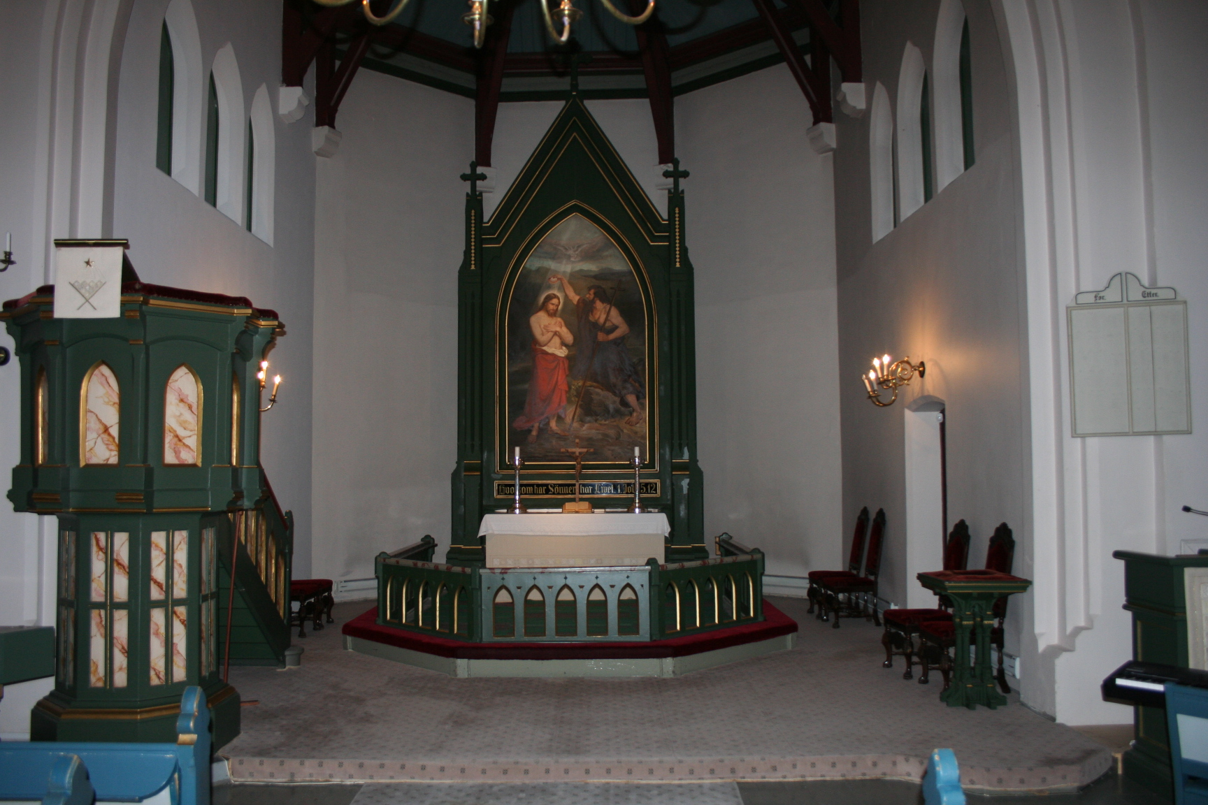 Skoger church, Drammen, Norway, altar. The painting is a replica of Adolph Tidemand «Christi Daab» (the baptism of Jesus Christ) in Trefoldighetskirken in Oslo. Replica by Christen Brun.